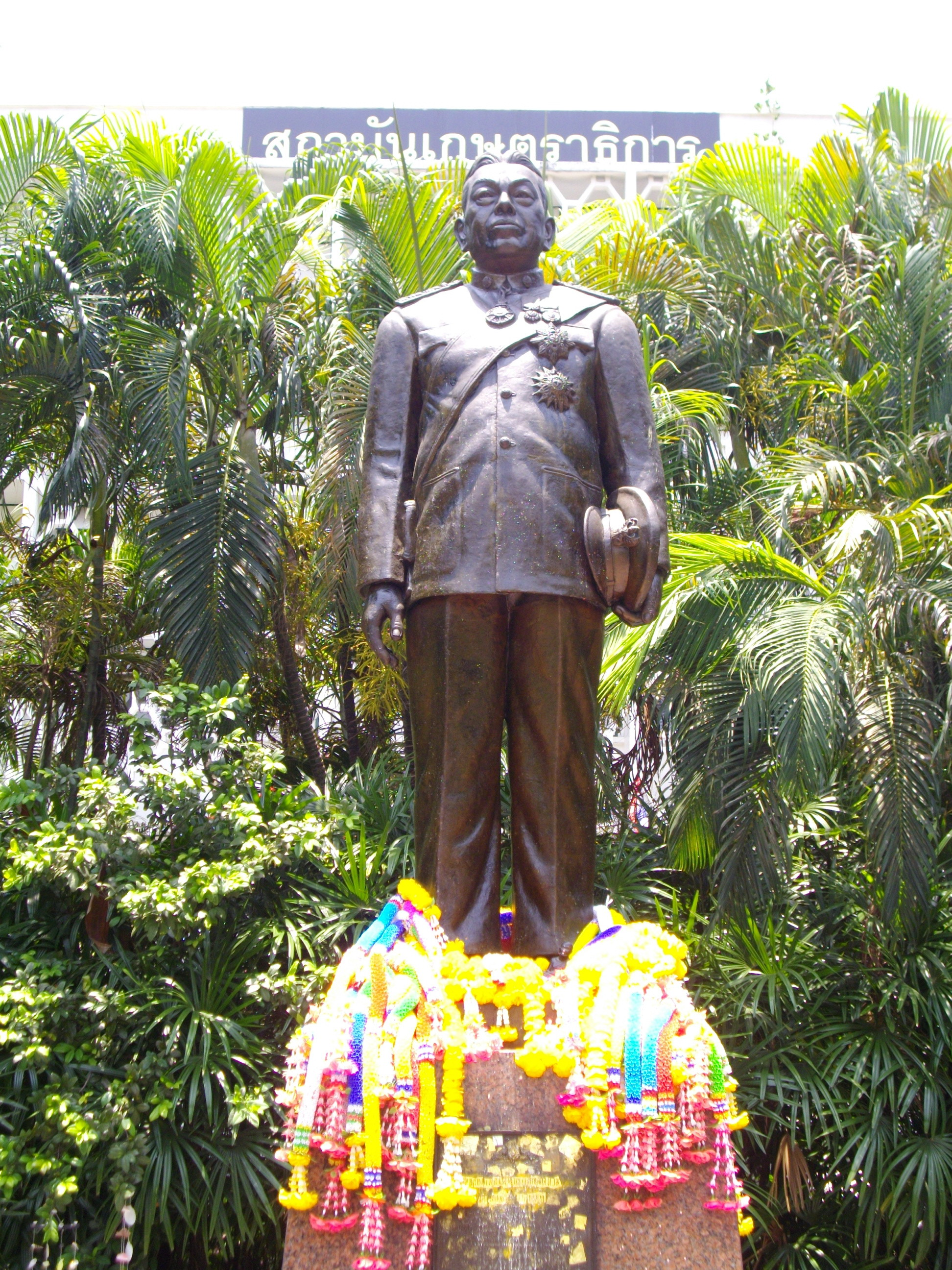 Monuments Luang Suvarnavachakakasikij (หลวงสุวรรณวาจกกสิกิจ), situated in front of Kasetrathikarn Institute, inside Kasetsart University, Bangkok, Thailand.